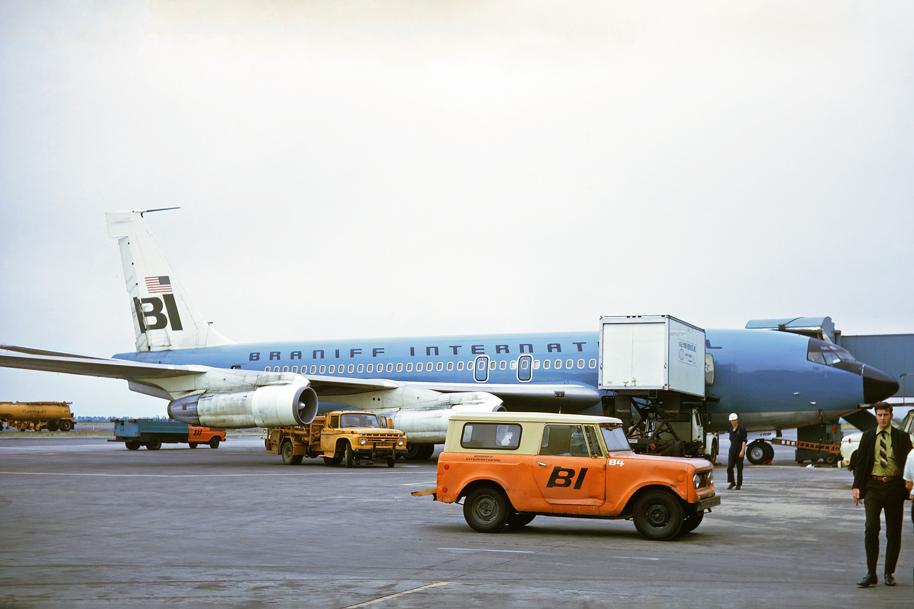 Currently owned by John Travolta as N707JT.